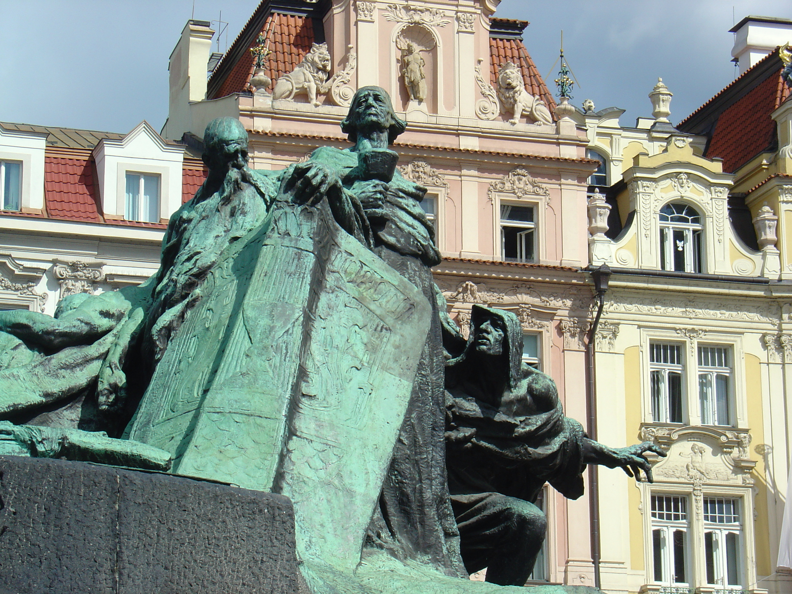 Monument to Jan Hus, Staroměstské náměstí, Prague.